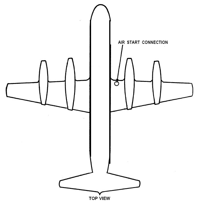 Air stair access door in Electra L-188